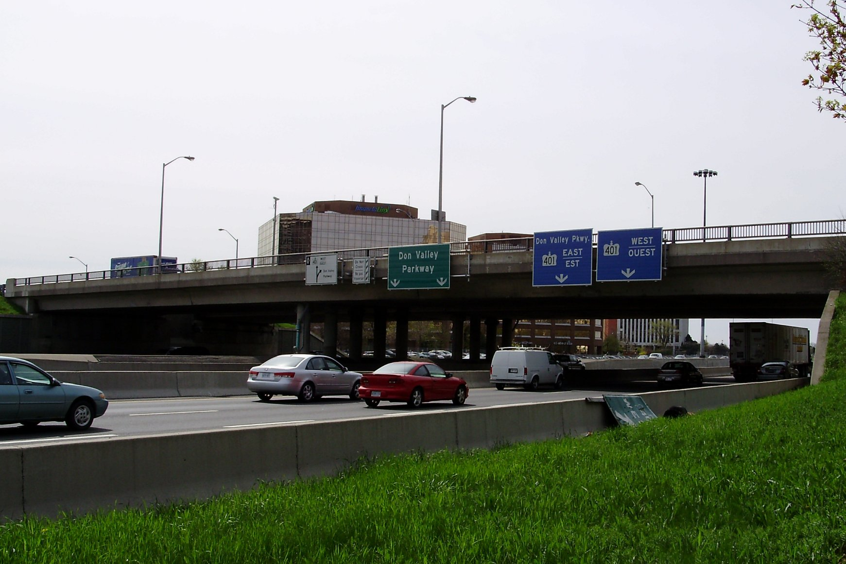 Sheppard Avenue in Toronto is carried by the pictured bridge above Highway 404.